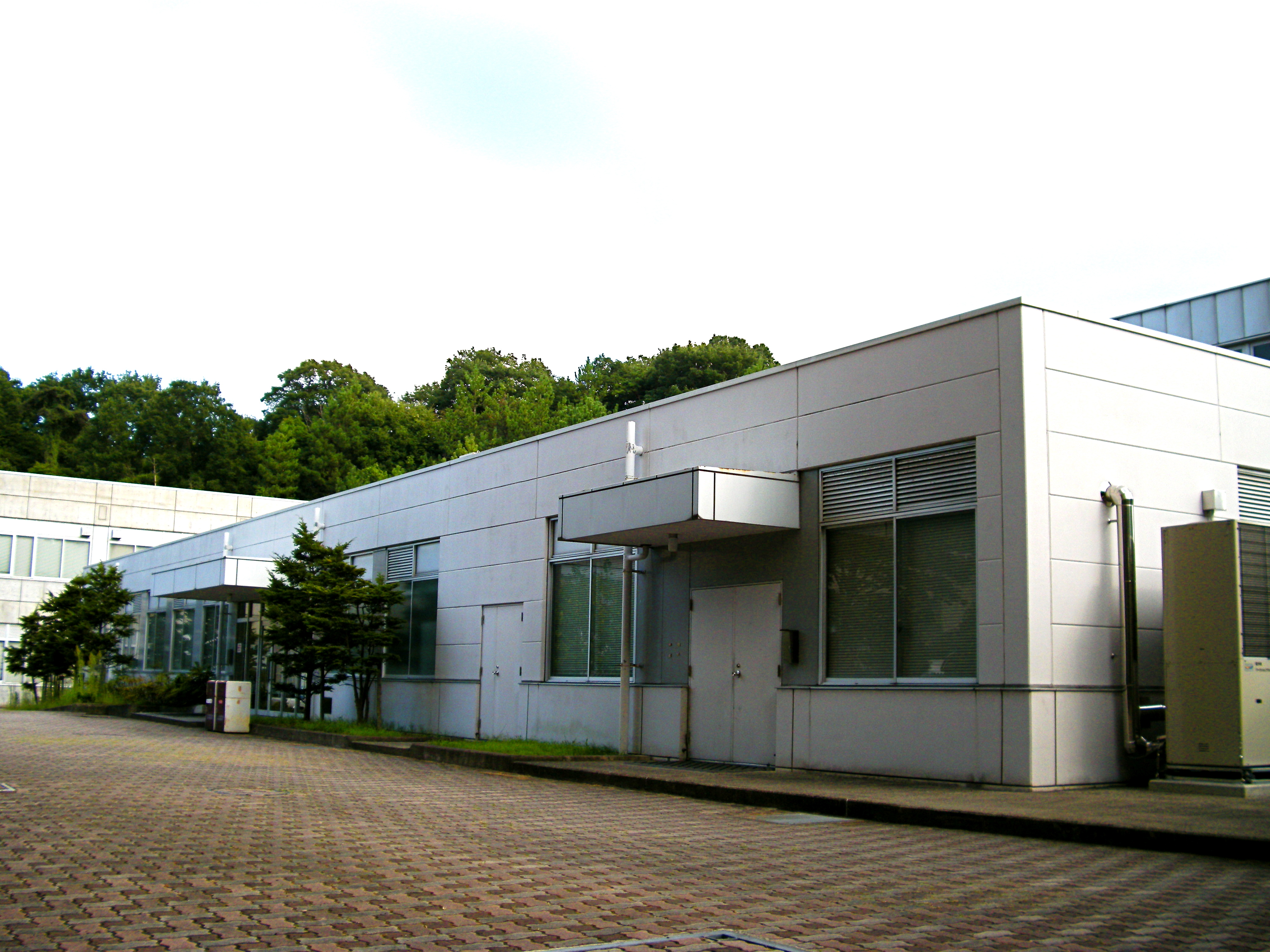 Workshop Laboratoire (Biwako Kusatsu Campus, Ritsumeikan University, Shiga, Japan)